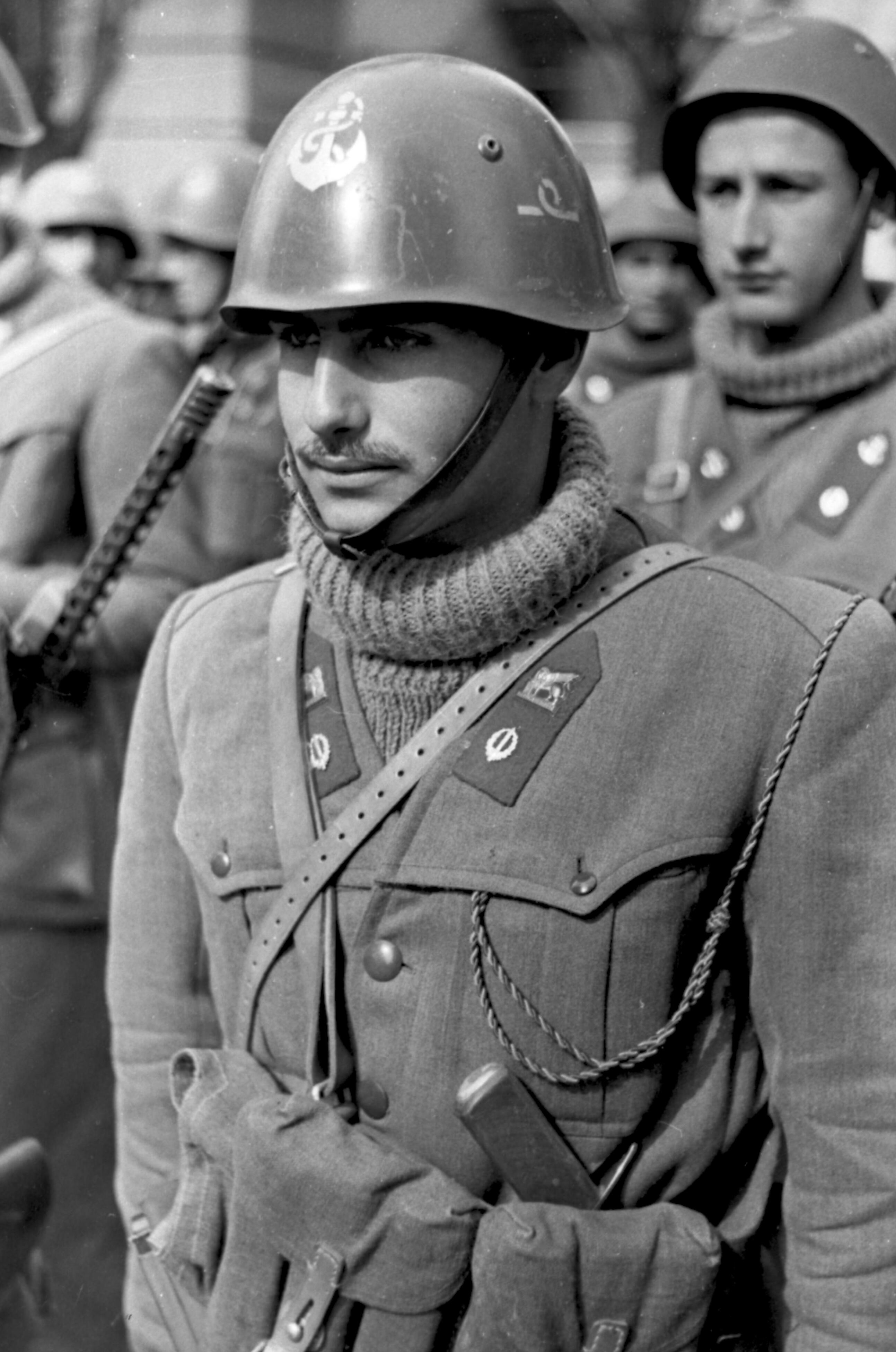 Roma, Italia, marzo 1944. Guardiamarina (aspirante?) italiano del 3° reggimento di fanteria di Marina San Marco (Repubblica Sociale Italiana), schierato in viale Carso, presso piazza Bainsizza, rione Prati, durante una ispezione condotta dal generale della Luftwaffe Kurt Mälzer in occasione del dispiegamento del suo reparto sul fronte della testa di ponte alleata ad Anzio - Nettuno a sud di Roma. Information added by Wikimedia users.Rome, Italy, March 1944. Sub-lieutenant (Ensign?) of the Marine regiment "San Marco" (belonging to the RSI Navy, and fighting as allied of the Germans) standing in viale Carso near piazza Bainsizza (Prati district, see here), inspected by General der Luftwaffe Kurt Mälzer (see here) around the time this unit was deployed to counter the Allied beachhead at Anzio - Nettuno, south of Rome. The very same officer is pictured at File:Bundesarchiv Bild 101I-311-0926-05, Italien, italienische Soldaten.jpg. See also: File:Bundesarchiv_Bild_101I-311-0926-08,_Italien,_italienische_Soldaten,_deutscher_General.jpg and File:Bundesarchiv Bild 101I-311-0926-09, Italien, italienische Soldaten, deutscher General.jpg.